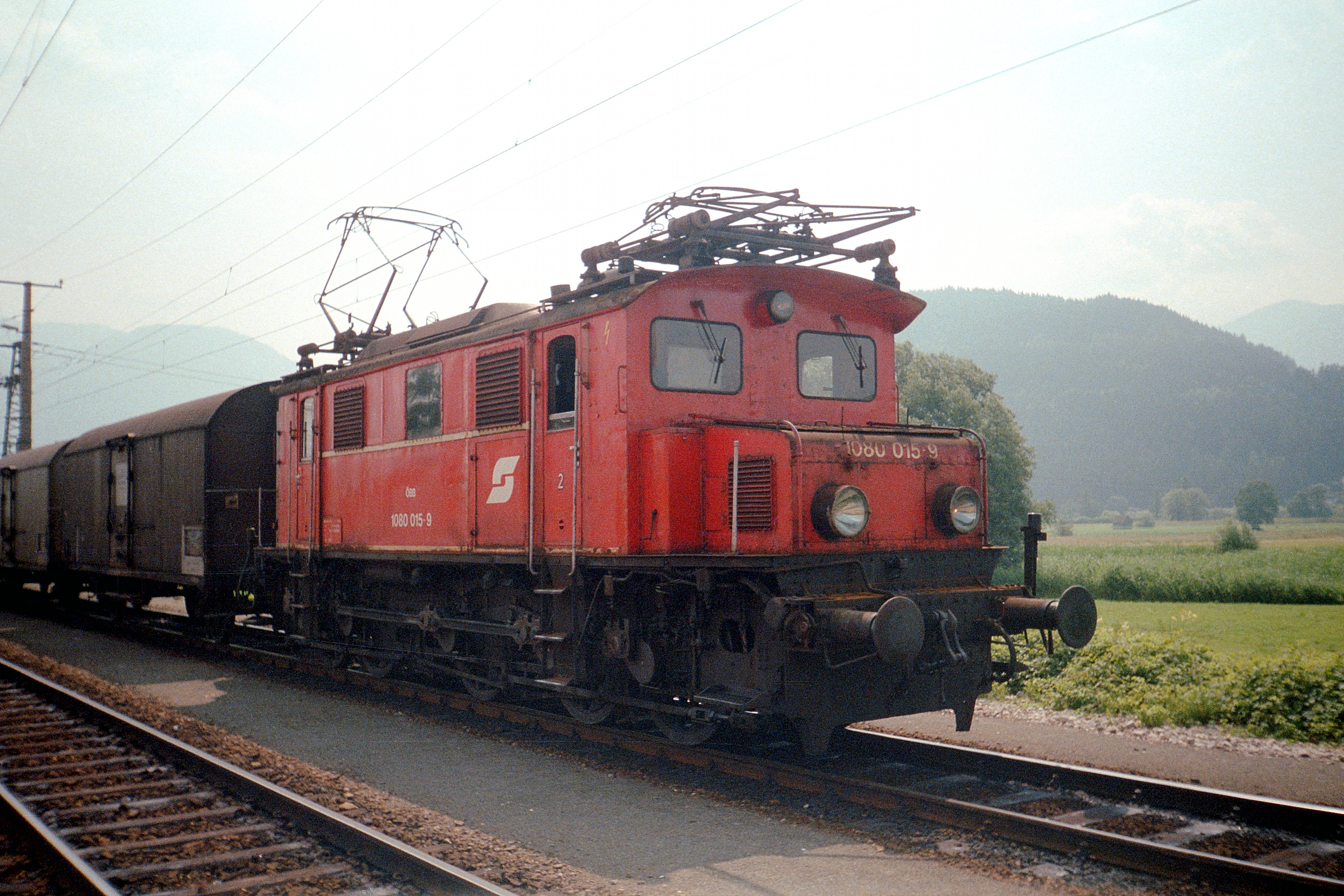 ÖBB 1080 015-9 with goods train at Stainach Irdning station, Styria. (scan from film)